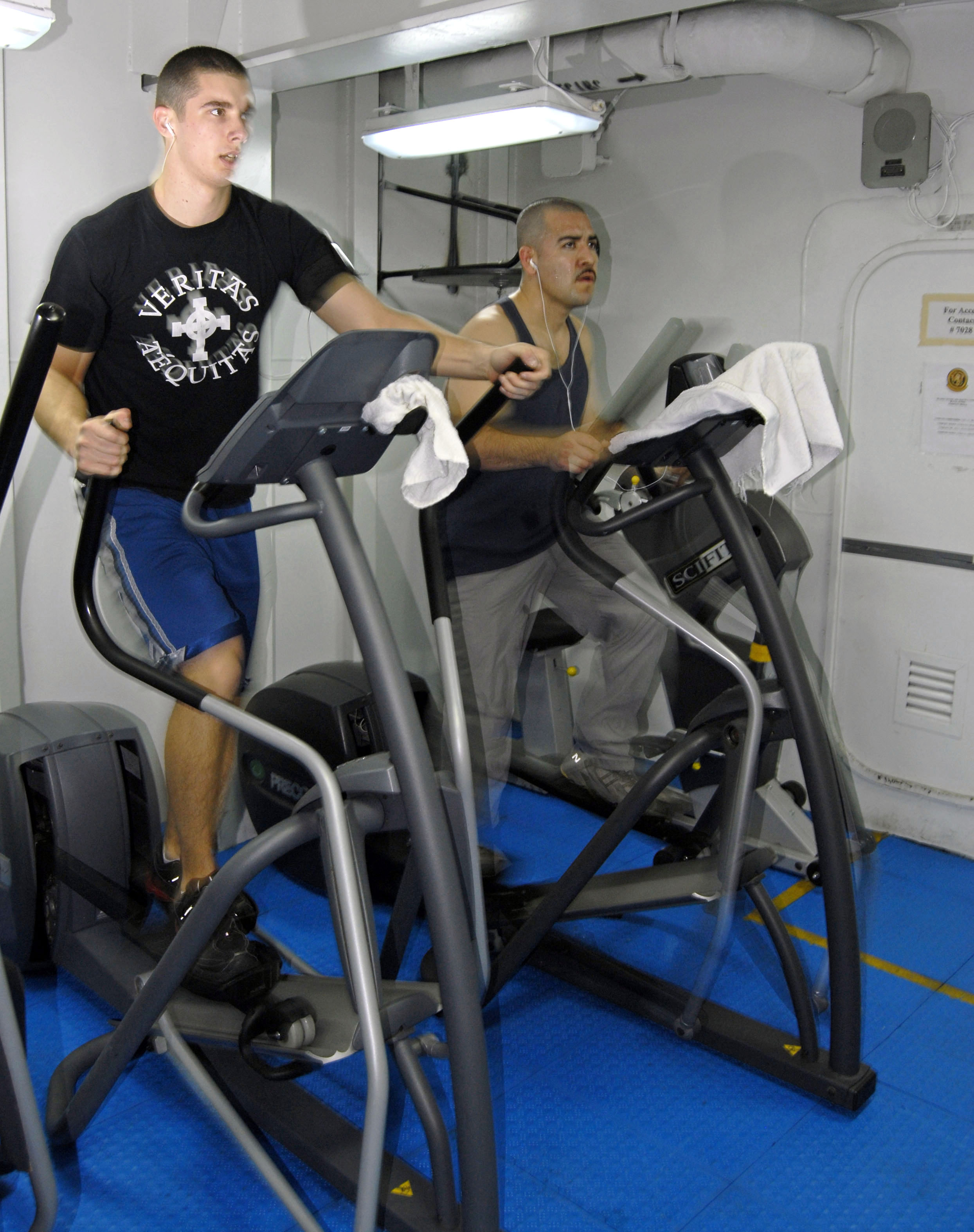 PERSIAN GULF (Feb. 10, 2007) - Damage Controlman 2nd Class Stephen Petroskey uses an elliptical trainer to test run the new cardiovascular portion of the Physical Readiness Test (PRT) aboard amphibious assault ship USS Boxer (LHD 4). Elliptical trainers and stationary bikes are new options to running the PRT. Boxer is currently operating in the Arabian Gulf conducting Maritime Security Operations (MSO) in support of 5th Fleet. U.S. Navy photo by Mass Communication Specialist Seaman Joshua Valcarcel (RELEASED)